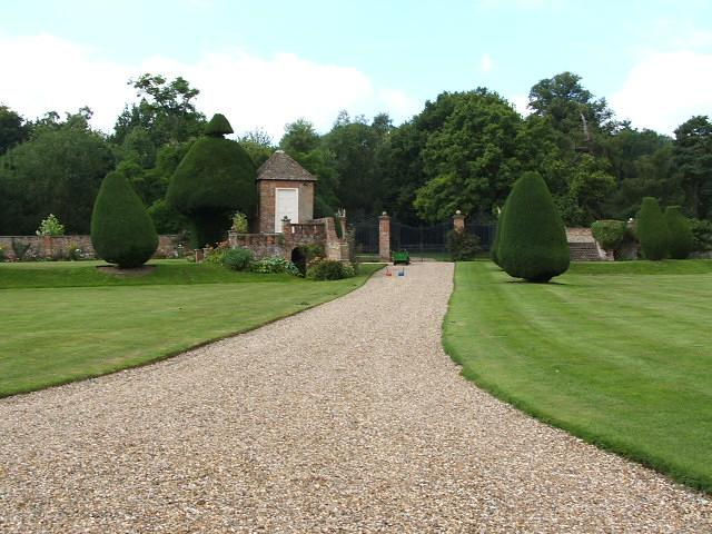 Gravel driveway and main gates, Sharsted Court, The gazebo on the left is a Grade II listed building.